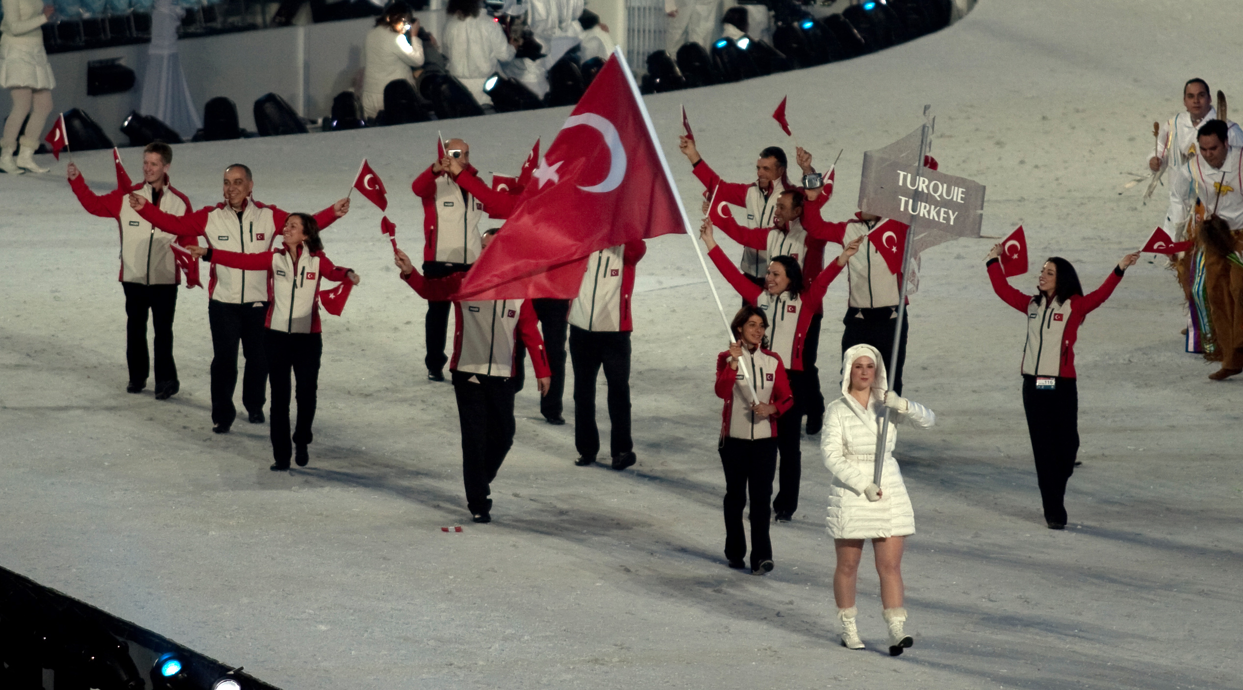 The athletes from the United States entering the stadium at the opening ceremonies of the 2010 Winter Olympics, with Kelime Aydın carrying the national flag.